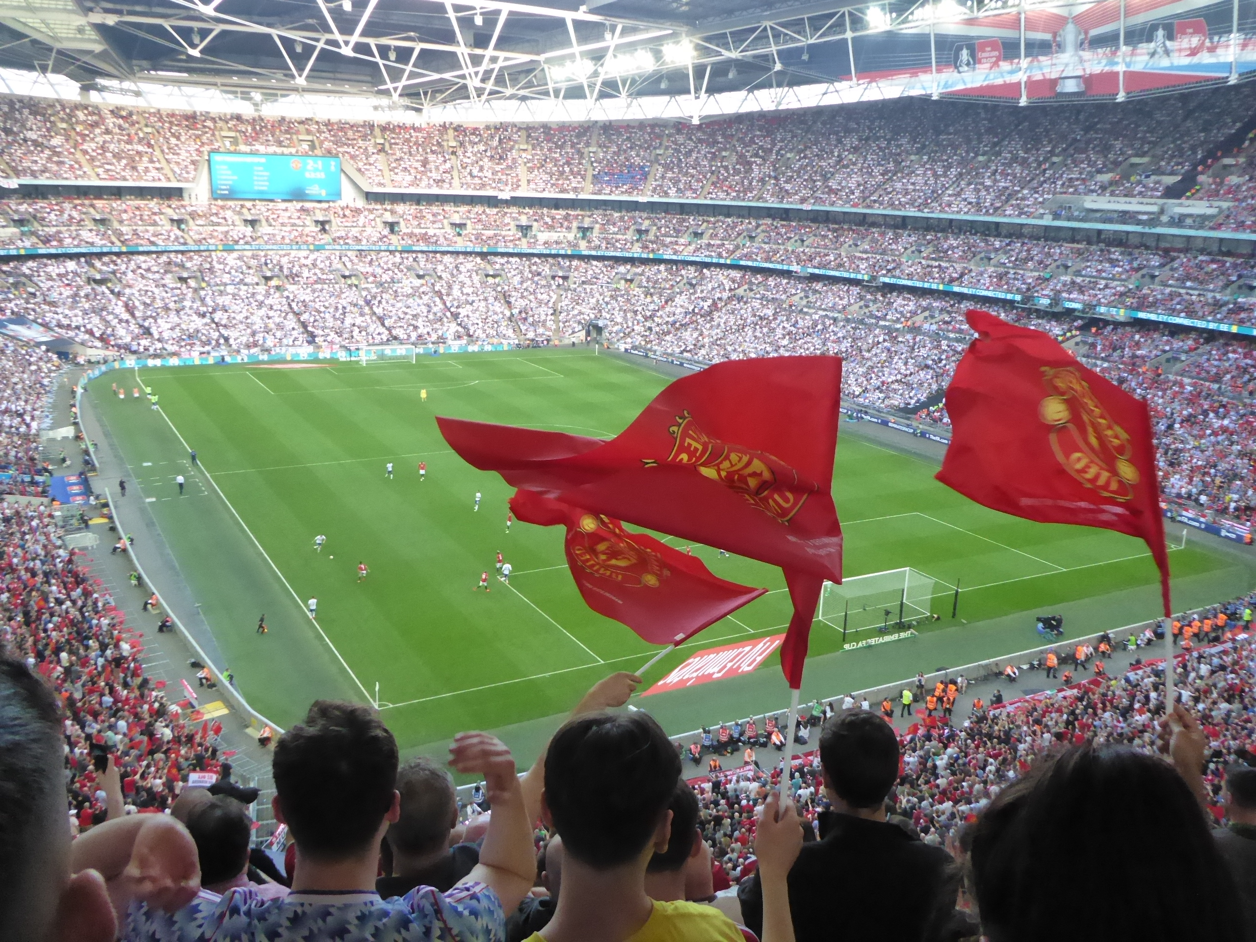 Tottenham Hotspur v Manchester United (1-2), FA Cup Semi-Final, Wembley Stadium, London, England, 21 April 2018